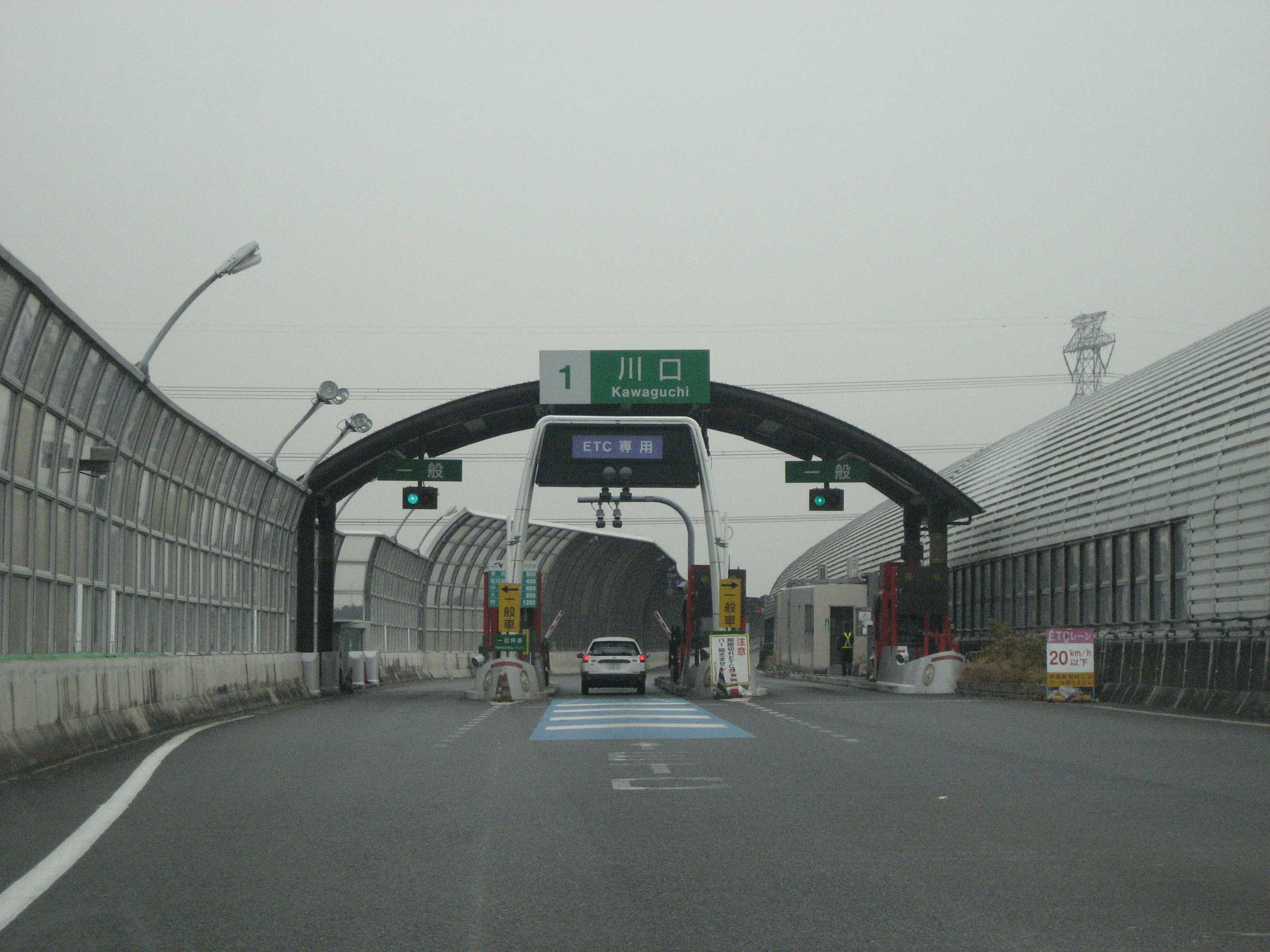 Kawaguchi Junction toll gates